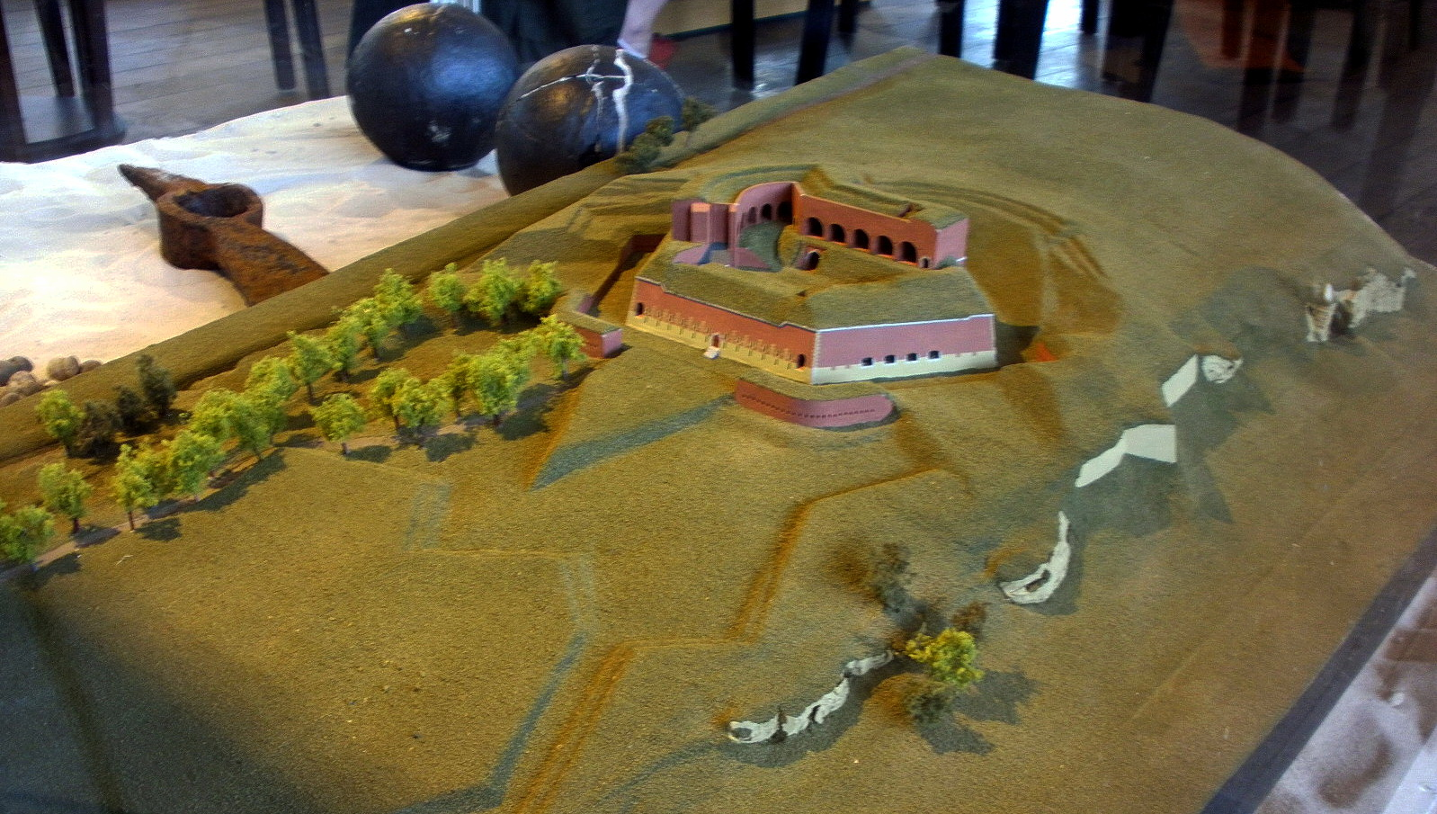 View of a recent scale model of fortress Sint-Pieter in Maastricht, here on display as part of a temporary exhibition in 2012 in Centre Céramique, Maastricht, the Netherlands.